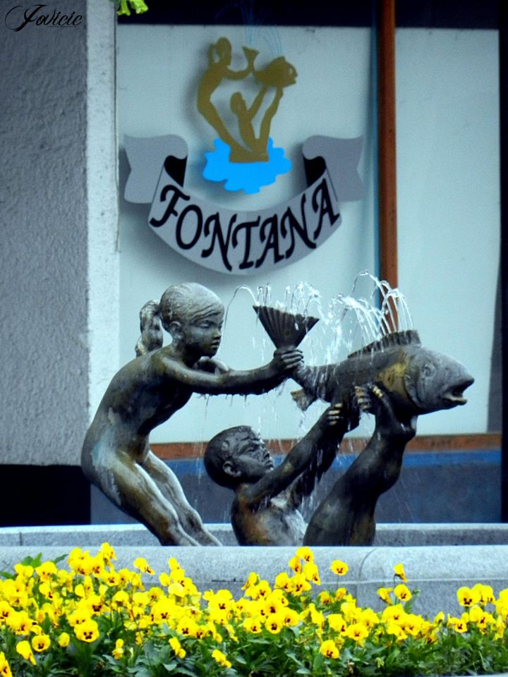 Fountain - the symbol of town